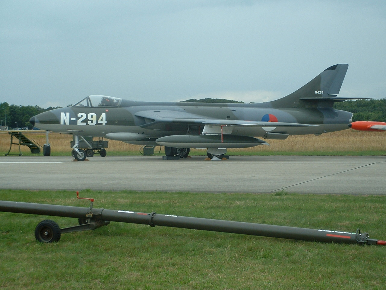 Hawker Hunter F.6A in Royal Netherlands Air Force colours, it is a former Royal Air Force aircraft operated on the British civil register as G-KAXF by the Dutch Hawker Hunter Foundation